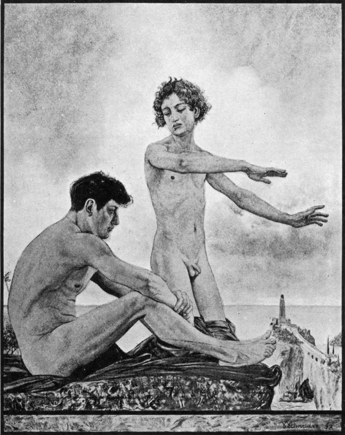 Sascha Schneider, "Dawn" (1897), Der Eigene, vol. 5, no. 1 (January 1905), unpaginated plate.